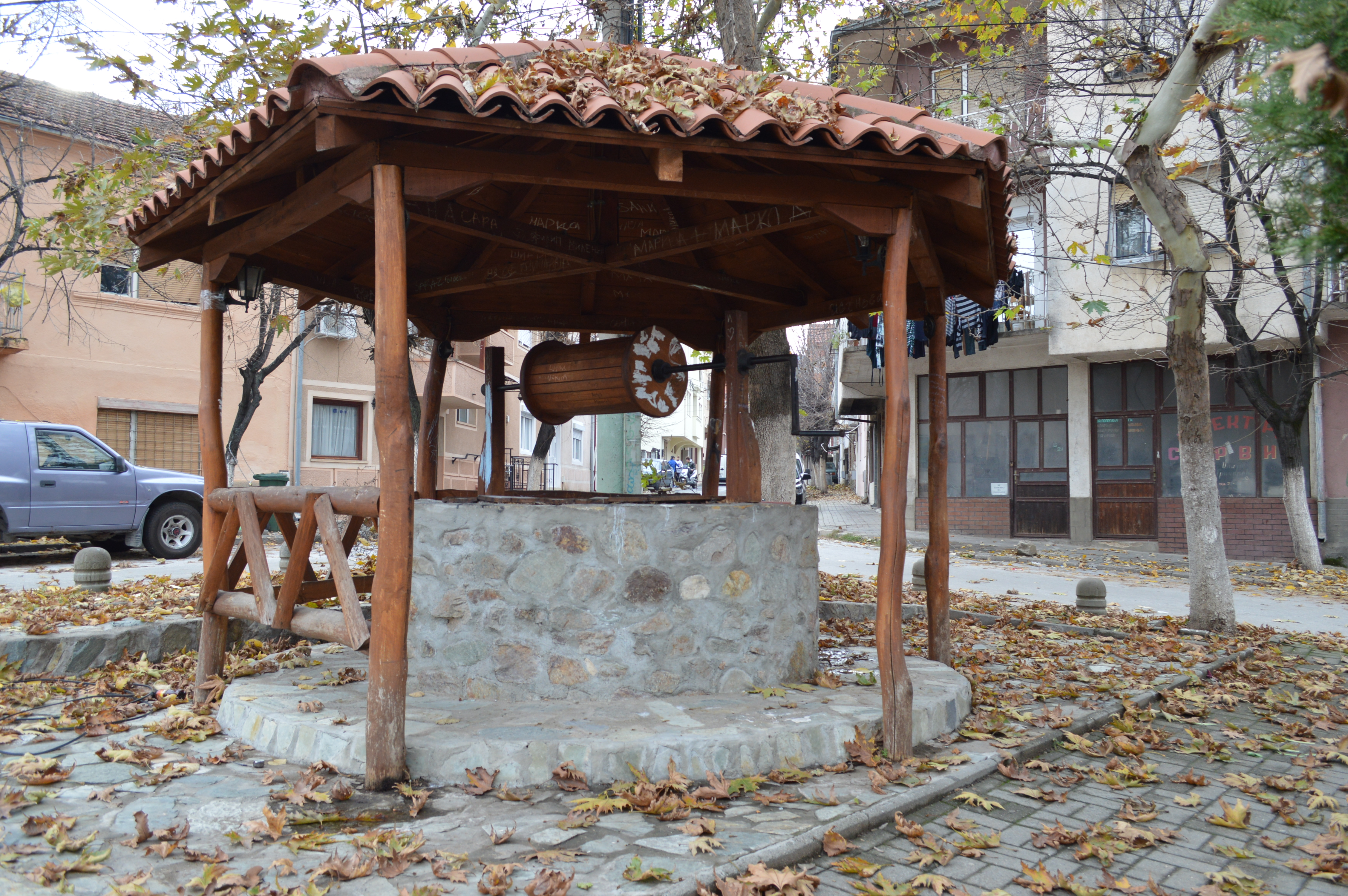 Velinski Well built in a neighborhood park in Strumica, Republic of Macedonia.